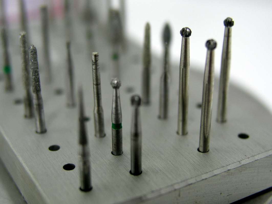 Burrs for dentistry. The photo was taken the 23rd December 2005 by Håkan Svensson (Xauxa).